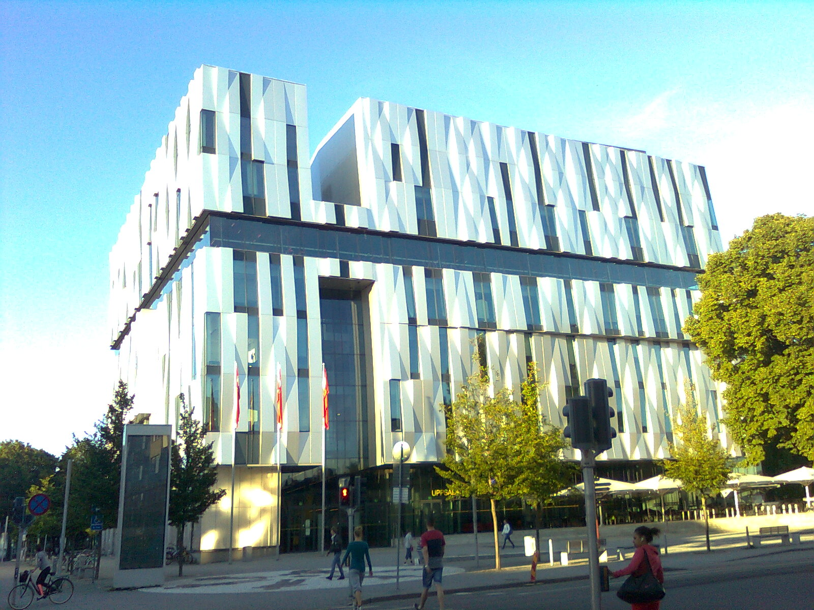 Uppsala konsert och Kongress - the music house in Uppsala, Sweden